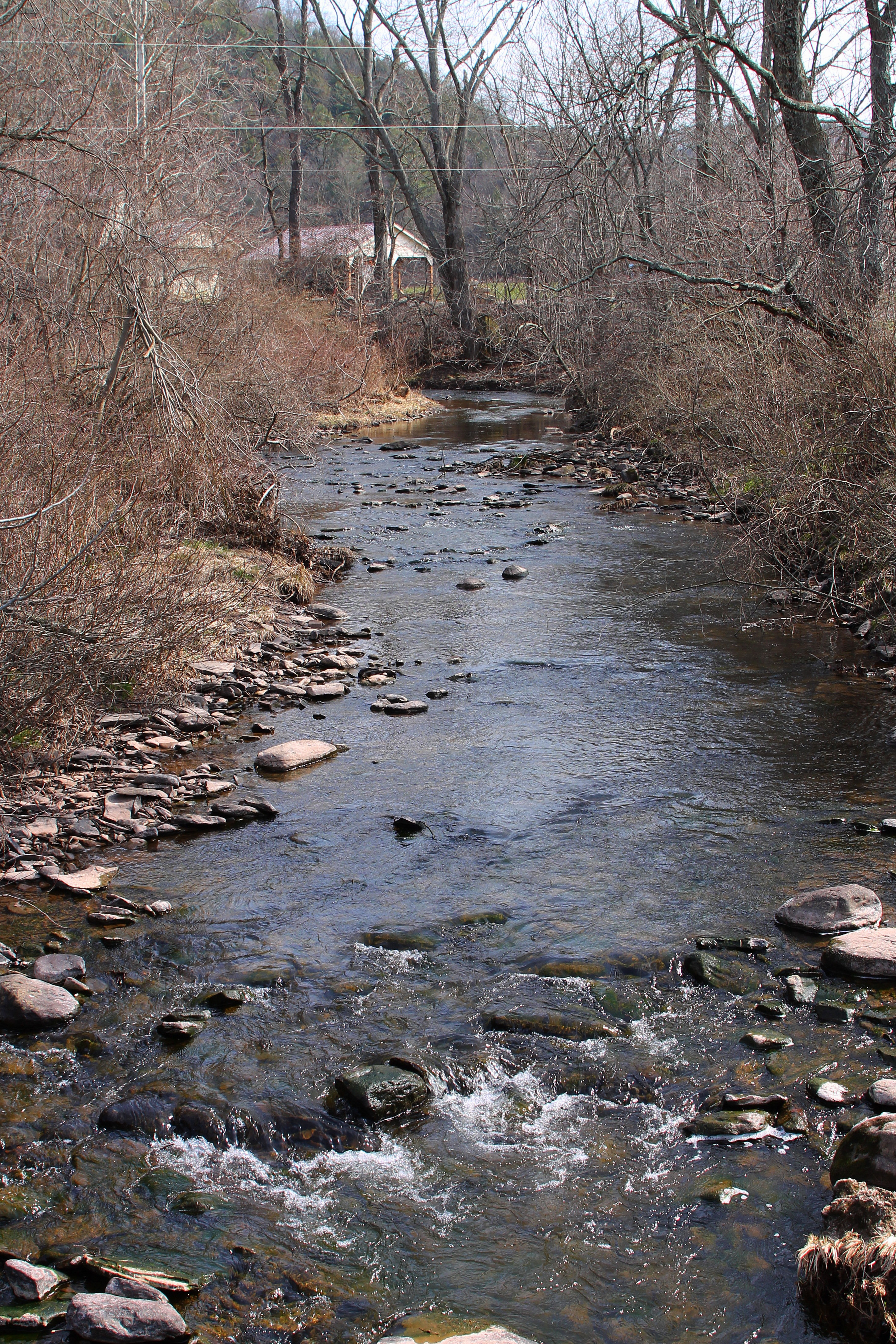 Beaver Run, a tributary of Little Muncy Creek, looking upstream from Beaver Run Road.